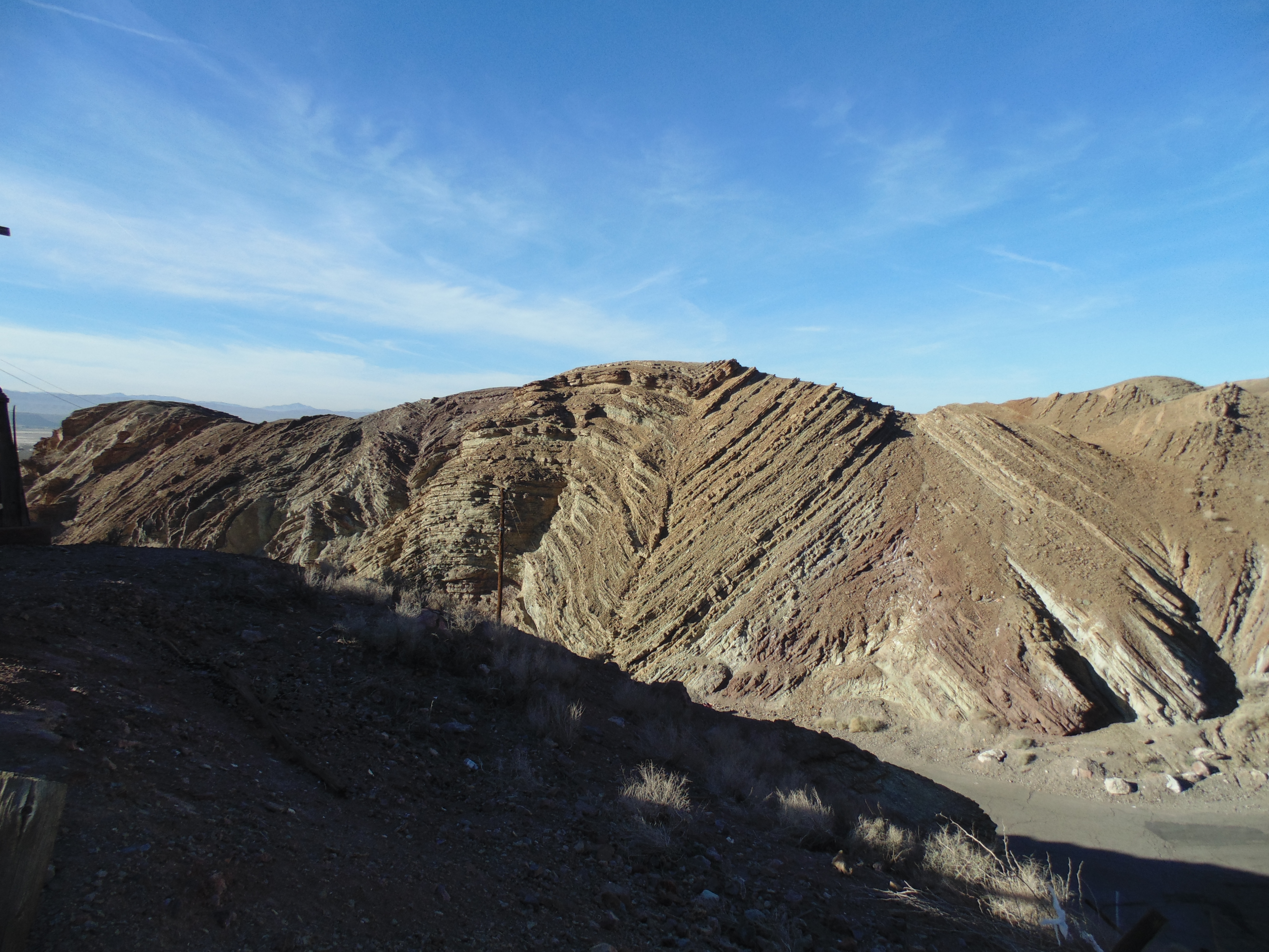 Calico's layers